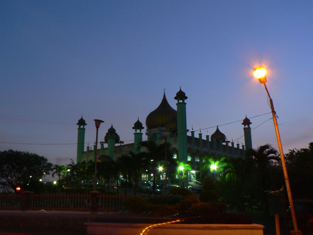 Kuching Mosque by dusk.